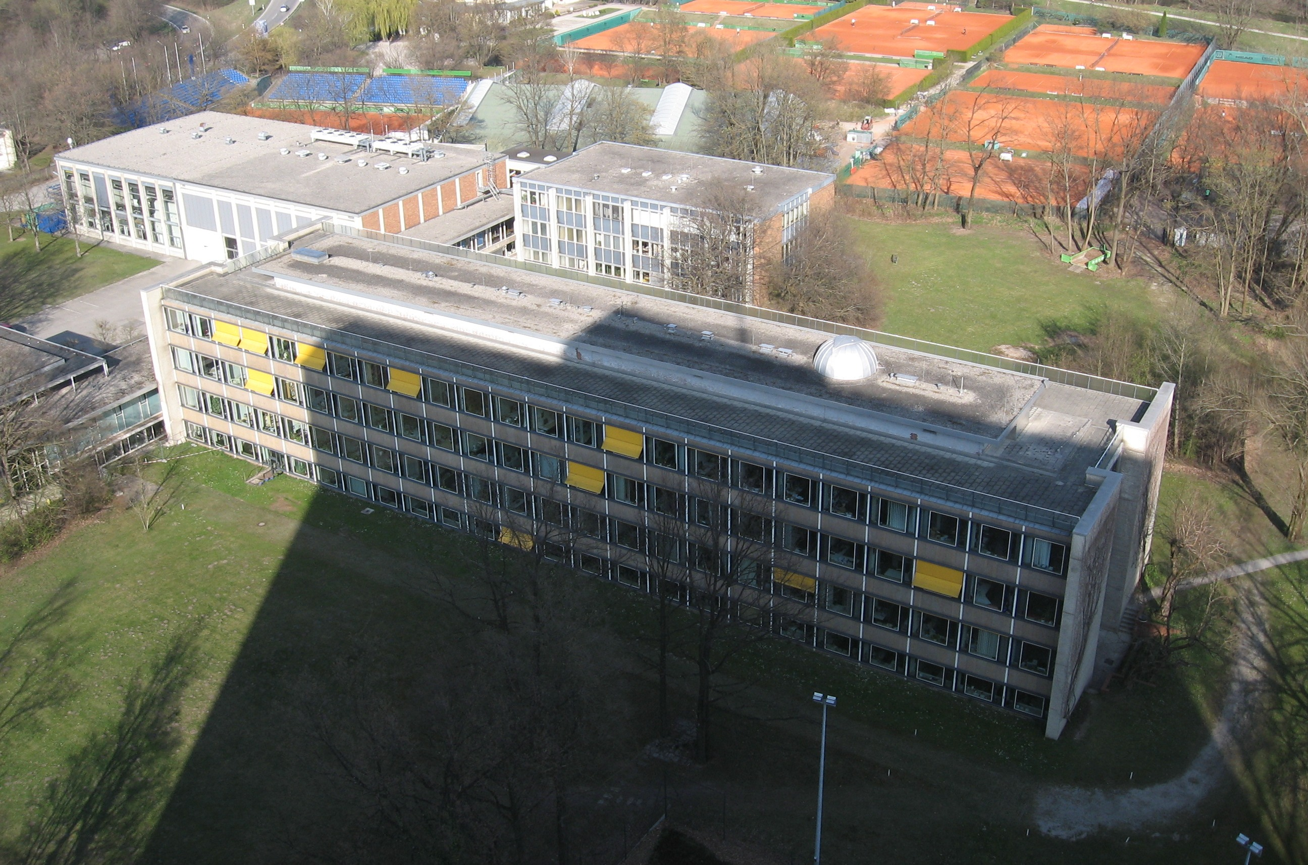 View of the Max-Planck-Institute for Physics, Munich. See also File:MaxPlanckInstitutPhysik.jpg